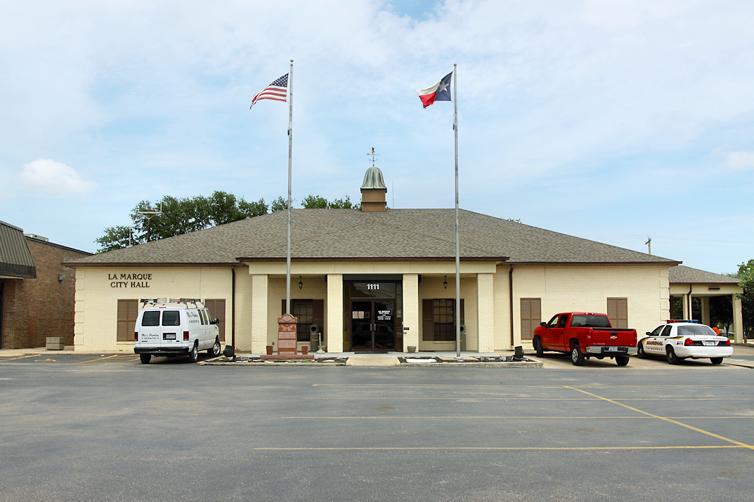 City Hall. La Marque, Texas, USA - 77568.